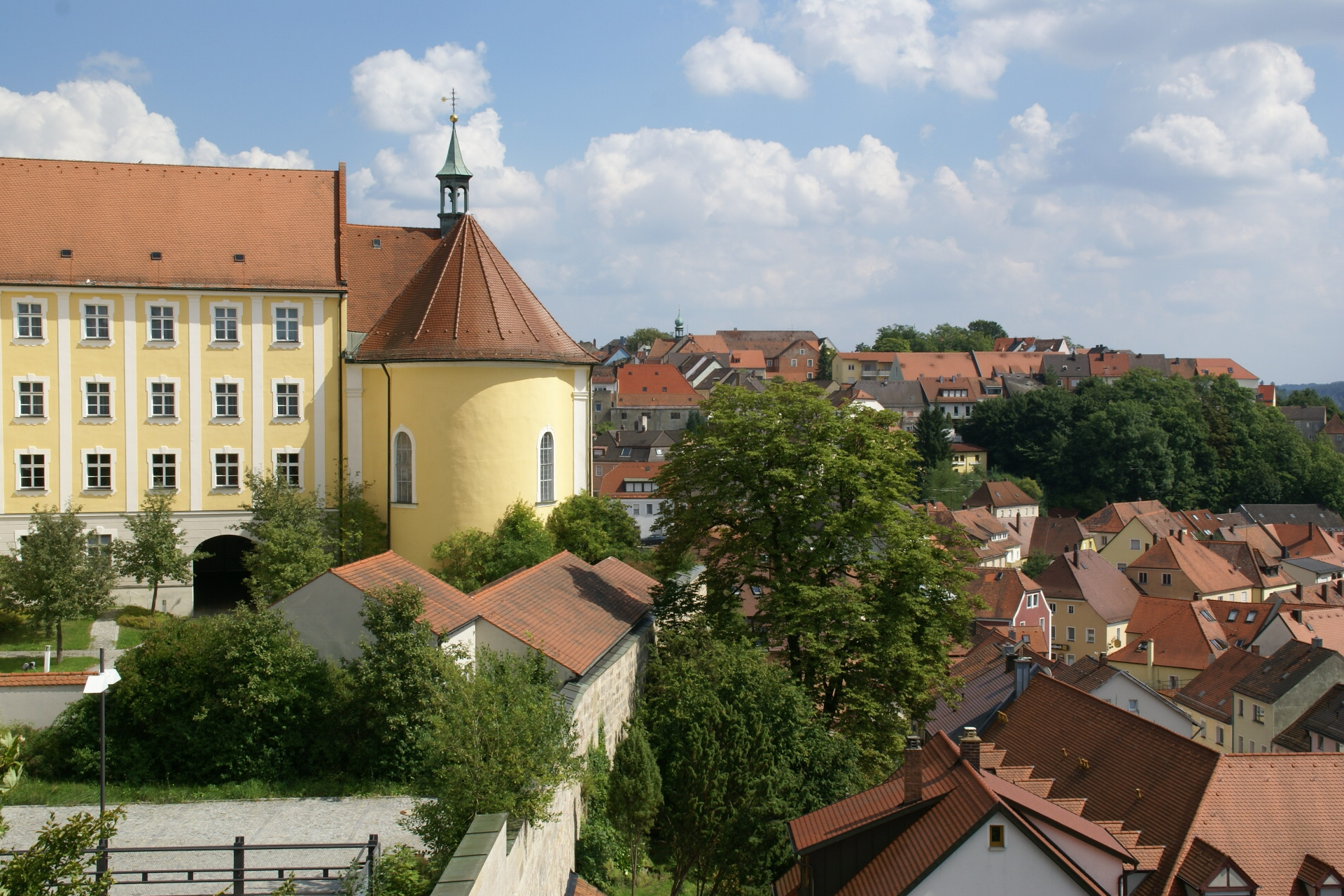 View from the castle at Sulzbach-Rosenberg (Germany)